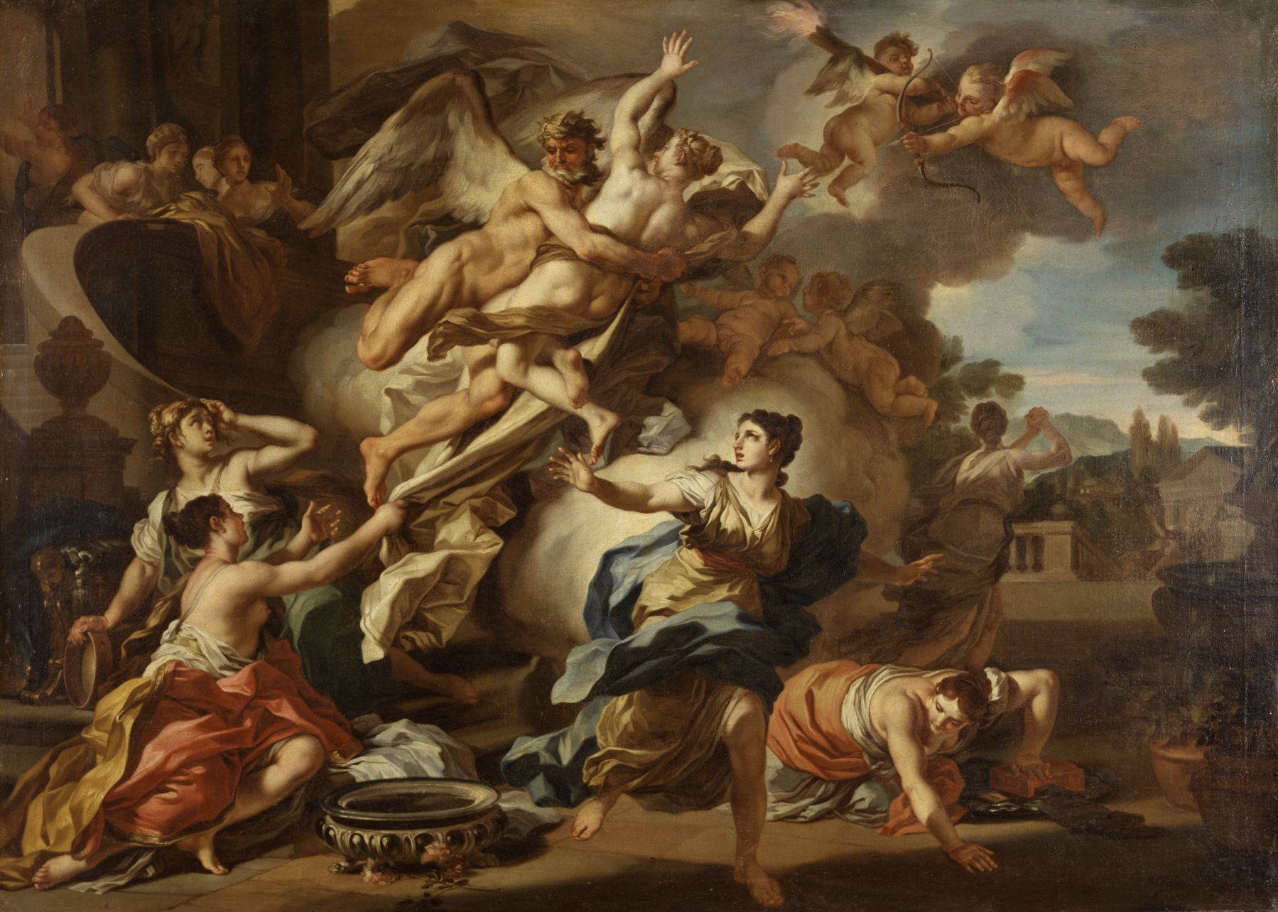 This composition, a copy of a replica of around 1730 by the great Neapolitan artist Solimena after his own earlier painting of 1701, represents a scene adapted from "The Metamorphoses," the famous poem on the loves of the gods by the 1st-century Roman author Ovid. The north wind Boreas was in love with Orithya, the daughter of the king of Athens. She refused him, and, in anger, the god abducted the frightened young woman from amid her maidens-in-waiting. Flying cupids (little gods of love) symbolize the passion that motivated Boreas. The dramatic use of flickering patches of light and shadow is characteristic of Solimena's style although the color is less intense. Copies of popular compositions were avidly bought for inclusion in decorative arrangements.